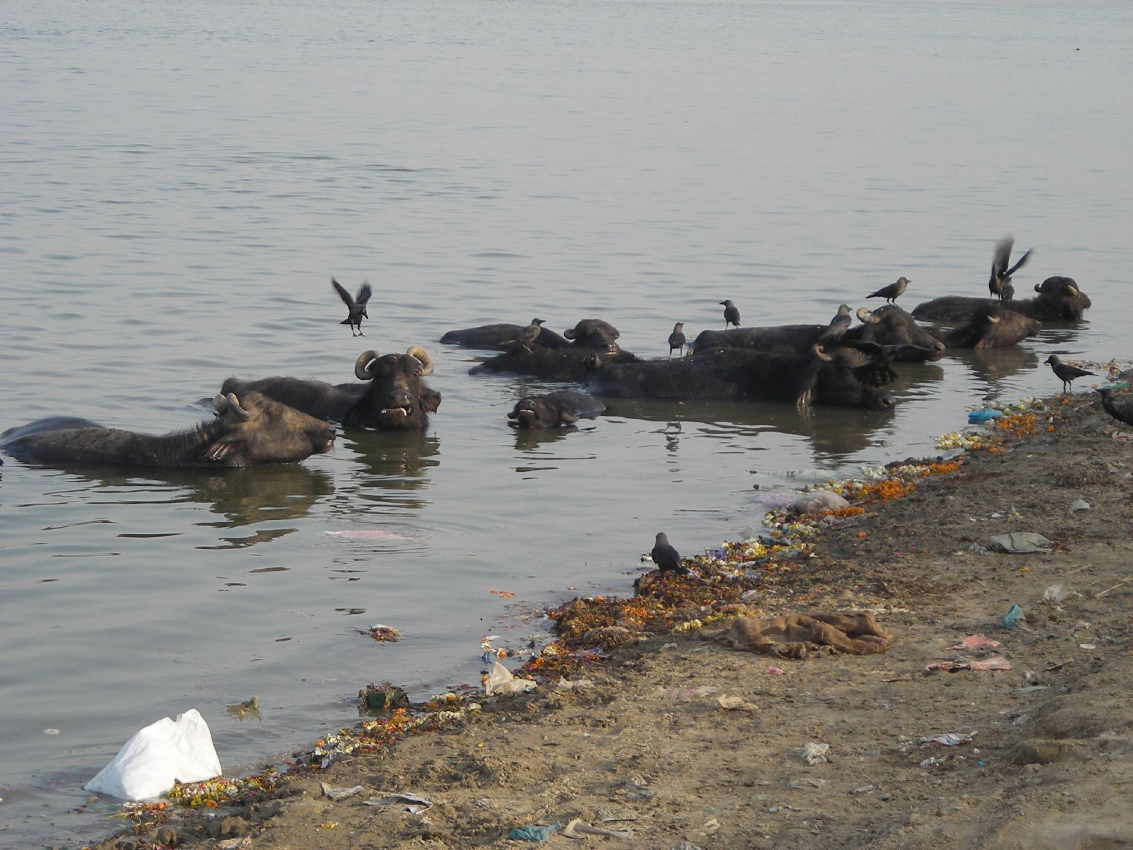 The images shows herd of cattles taking bath in river Ganges with the pollution and waste collected on the bank.